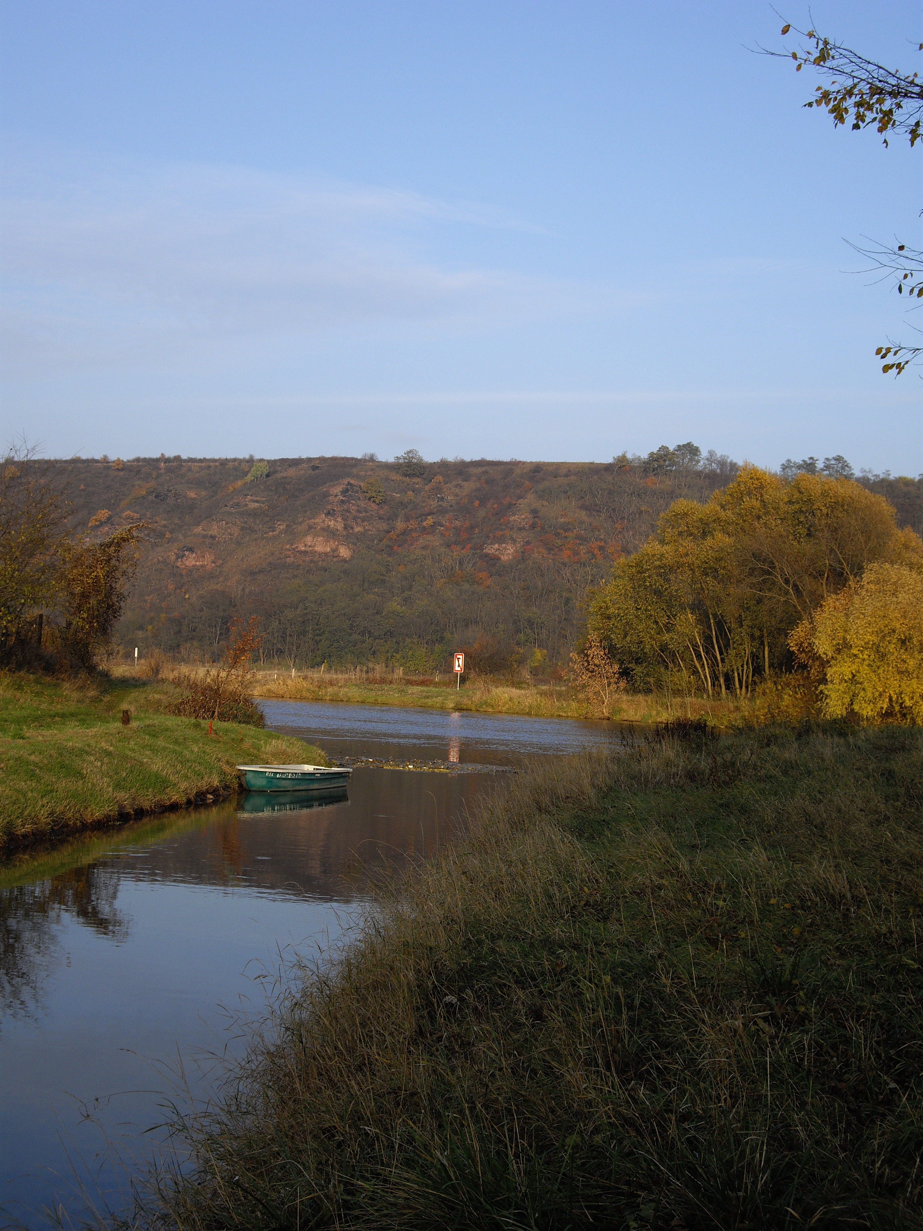 the mouth of the Schlenze into the river Saale in Germany